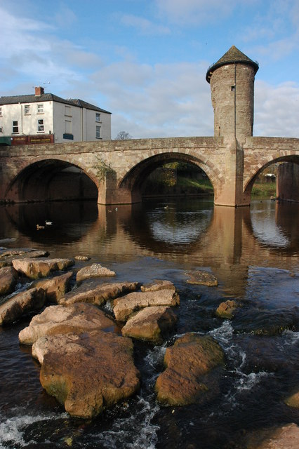 Monnow Bridge, Monmouth, Wales